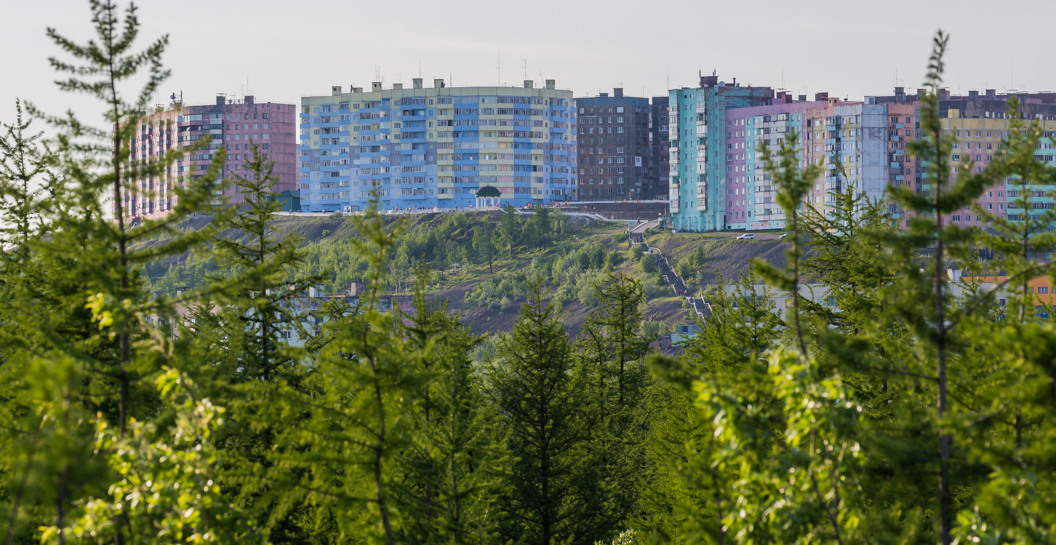 Talnakh, suburb of Norilsk, located about 25 kilometers north of Norilsk